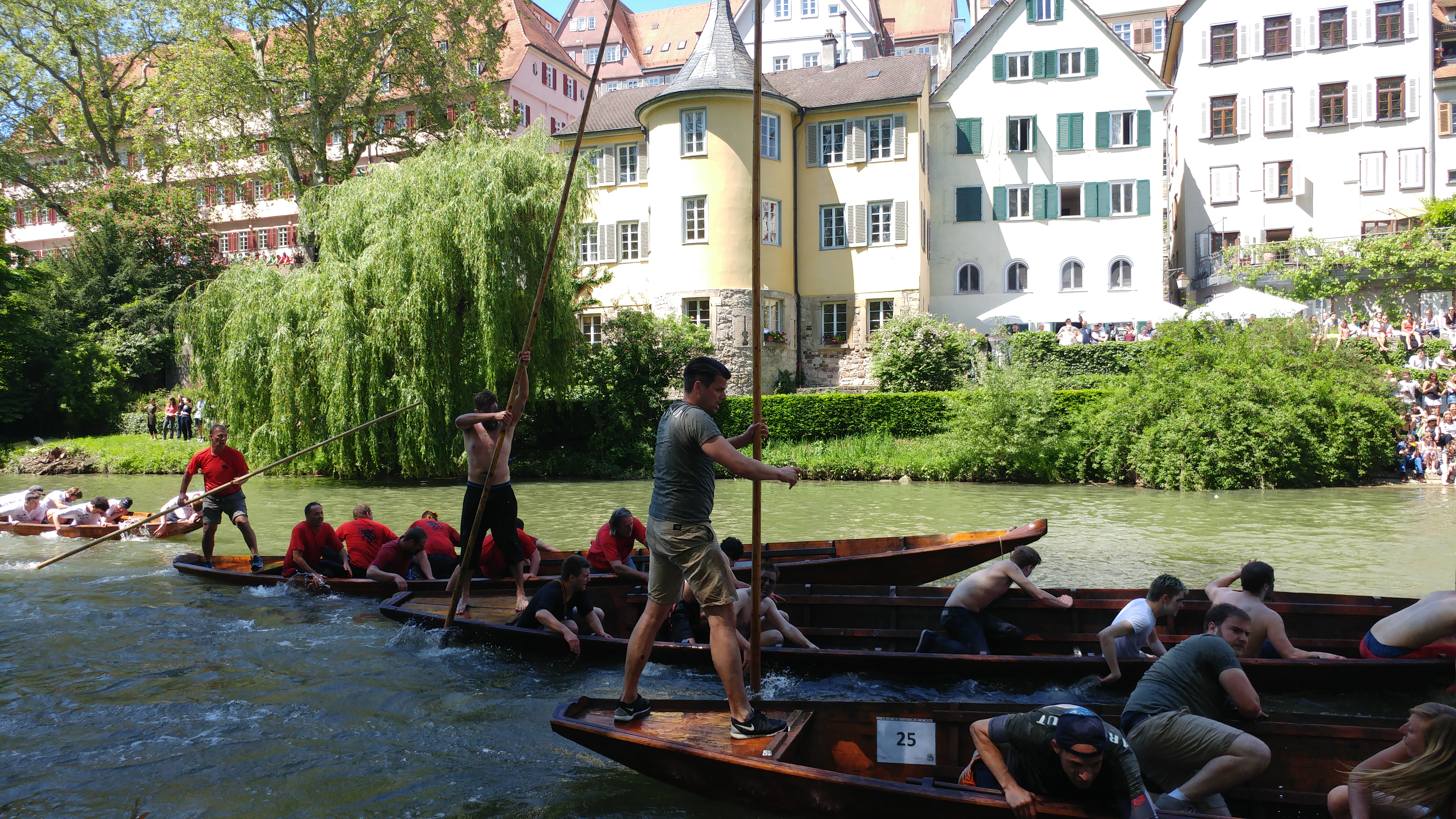 Stocherkähne on the River Neckar during the traditional race in May